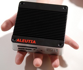 Photograph of an Aleutia mini-itx computer.